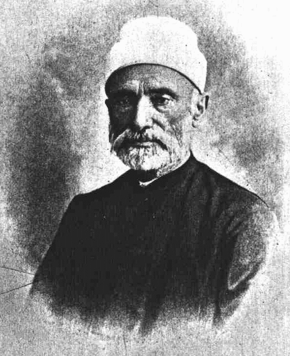 Baha’i historian Mohammed Jawad Gazvini